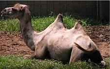 Bactrian Camel, originally uploaded to Dutch wikipedia by user Jcwf; photographed by the camel's brother-in-law Original upload log says it was photographed by Jcwf, so: Hình:Bactrian Camel.jpg